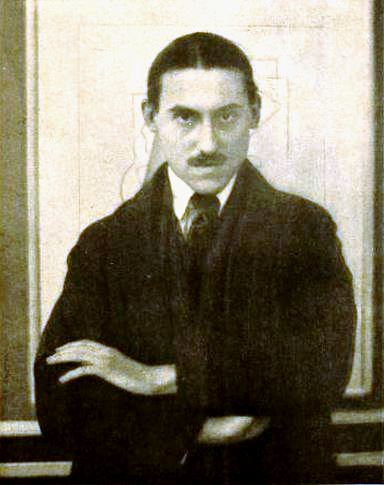 Portrait of American artist Charles Demuth, on page 11 of the December 1922 Shadowland.